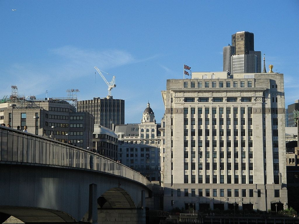 London Bridge, looking north. Photo taken by Will Fox in September 2005 and released to the public domain.